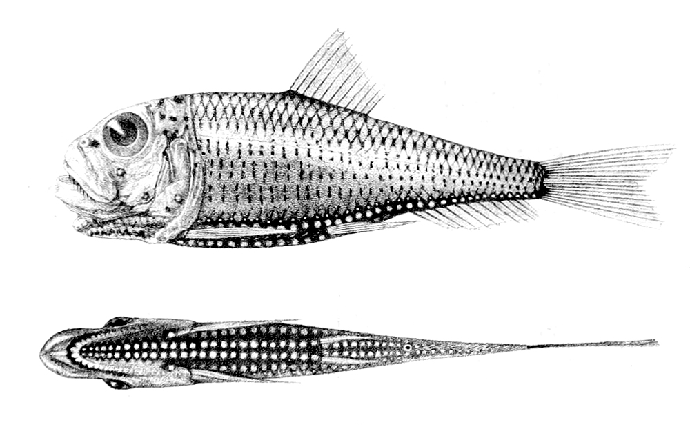 Ichthyococcus ovatus